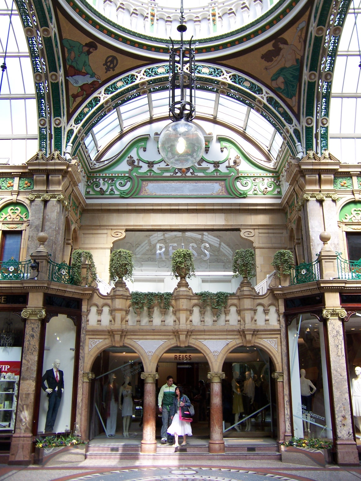 Victoria Quarter in Leeds, West Yorkshire (England) own work; photo taken on 30 April 2006